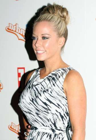 Playboy Business: Kendra Wilkinson Reality In Sydney at Ivy 2011.